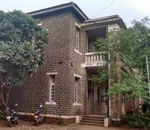 college chintamanrao